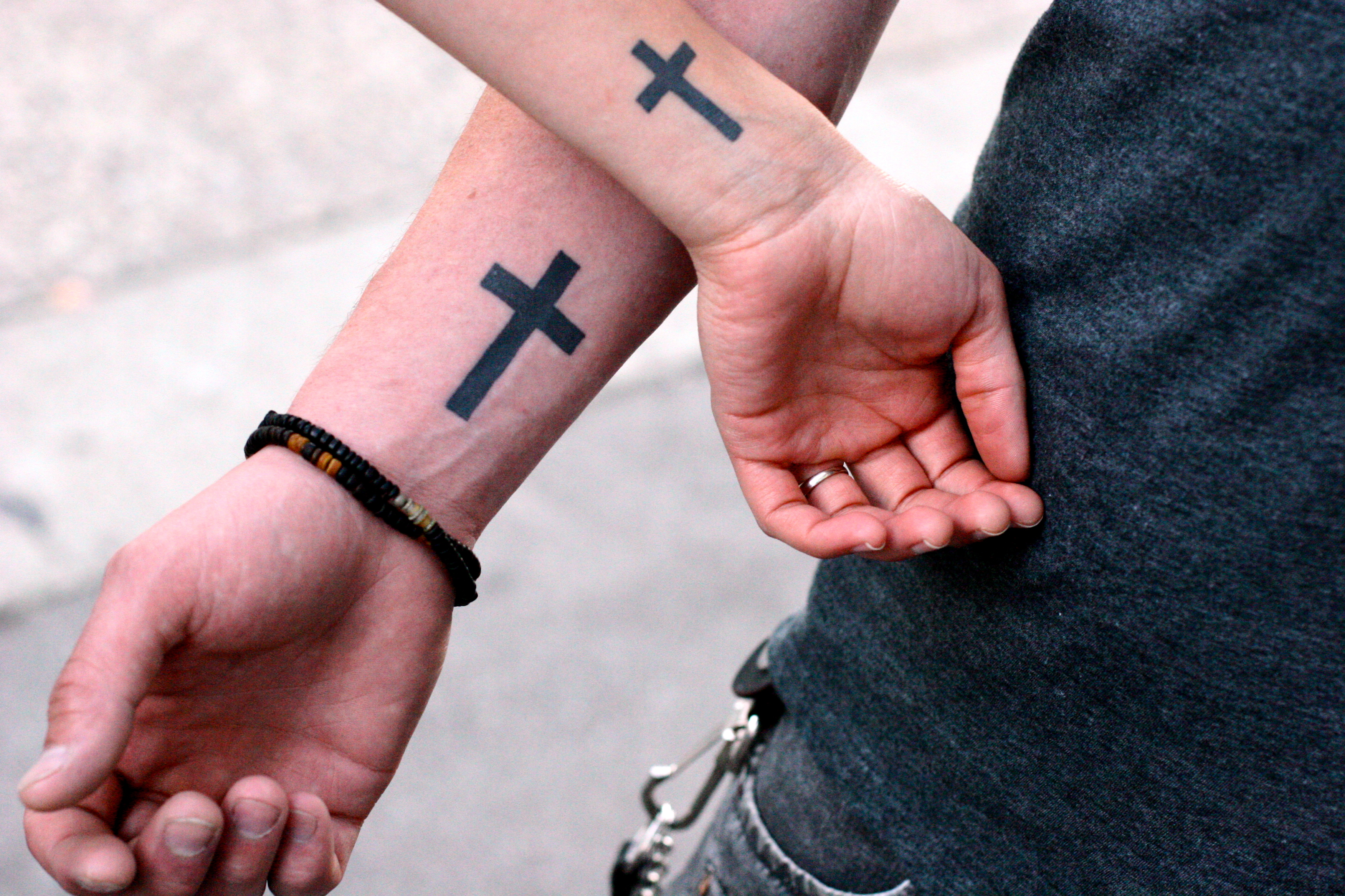 Jesus is So Cool